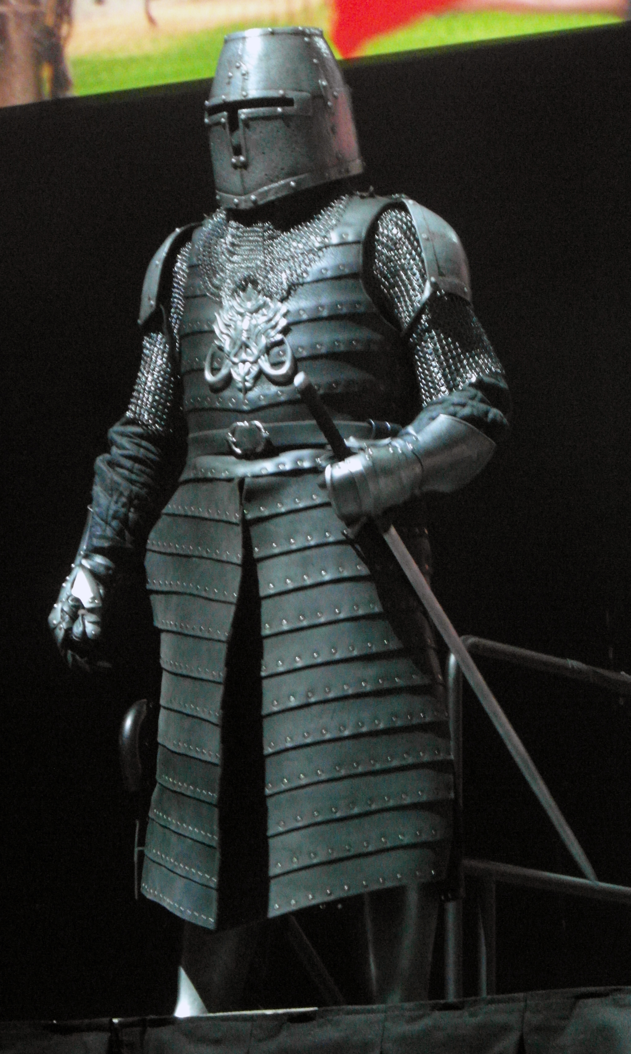 It's the Robot of Sherwood! Wednesday 27th May, 7.30pm performance. Doctor Who Symphonic Spectacular